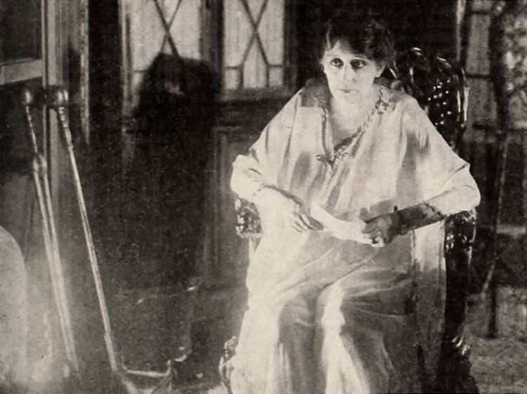 Still from the American drama film What Will People Say? (1916) with Olga Petrova, on page 23 of the January 1916 Cine-Mundial (American Spanish language magazine).